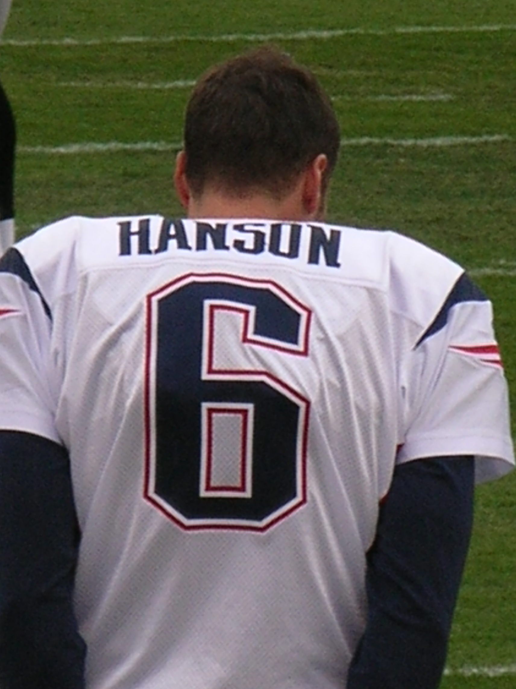 New England Patriots punter Chris Hanson on the field prior to an away game against the Oakland Raiders. The Patriots won 49-26.